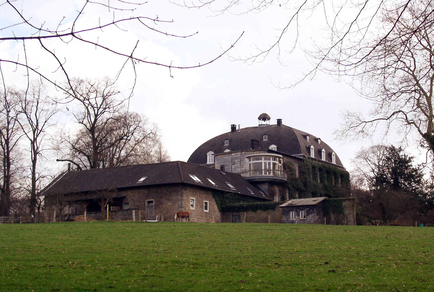 Haus Schede - Manor of Friedrich Harkort, the "father" of the Ruhr industrial area in Western Germany in the 19. century. This is a photograph of an architectural monument.